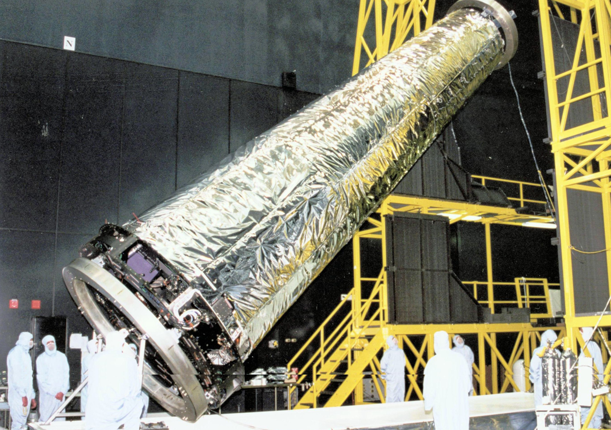 Chandra X-ray space observatory of the NASA : Observatory Integration and Assembly. Optical Bench being rotated into position.